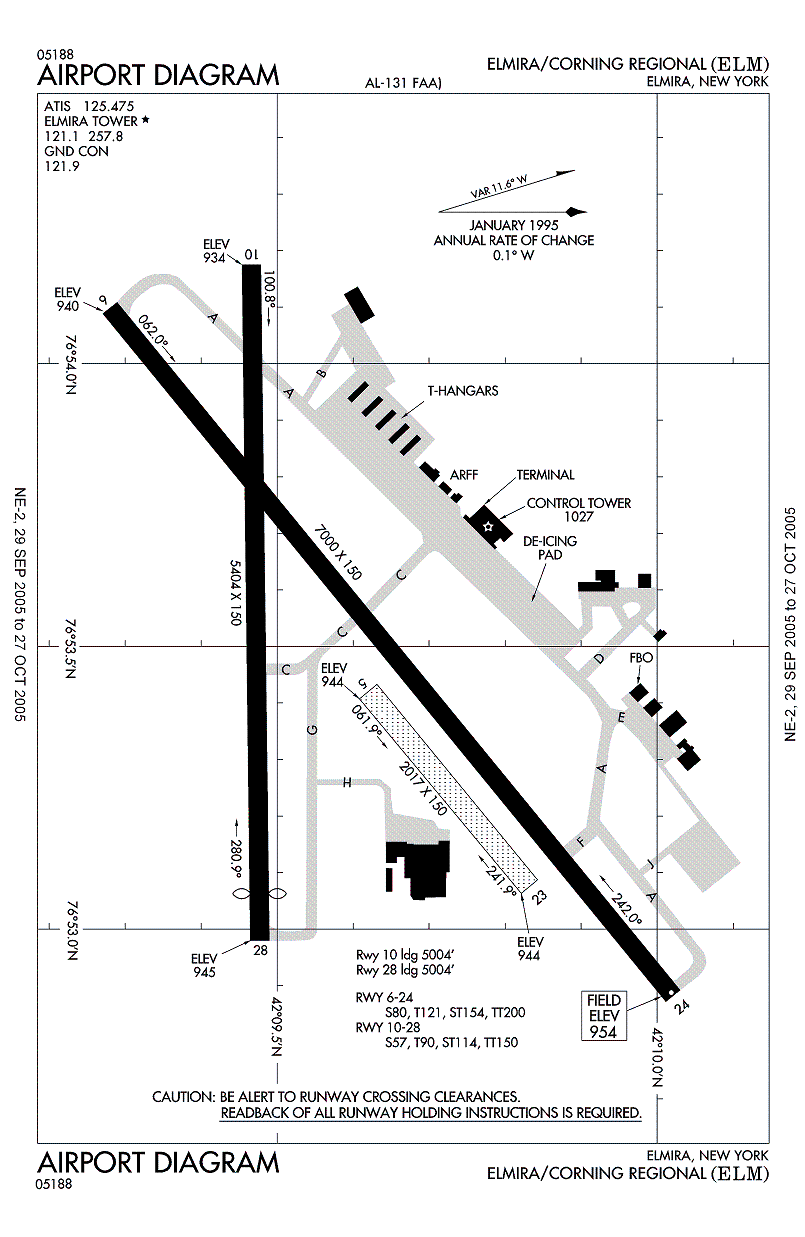 FAA diagram of Elmira/Corning Regional Airport (ELM) in Elmira, New York, United States.